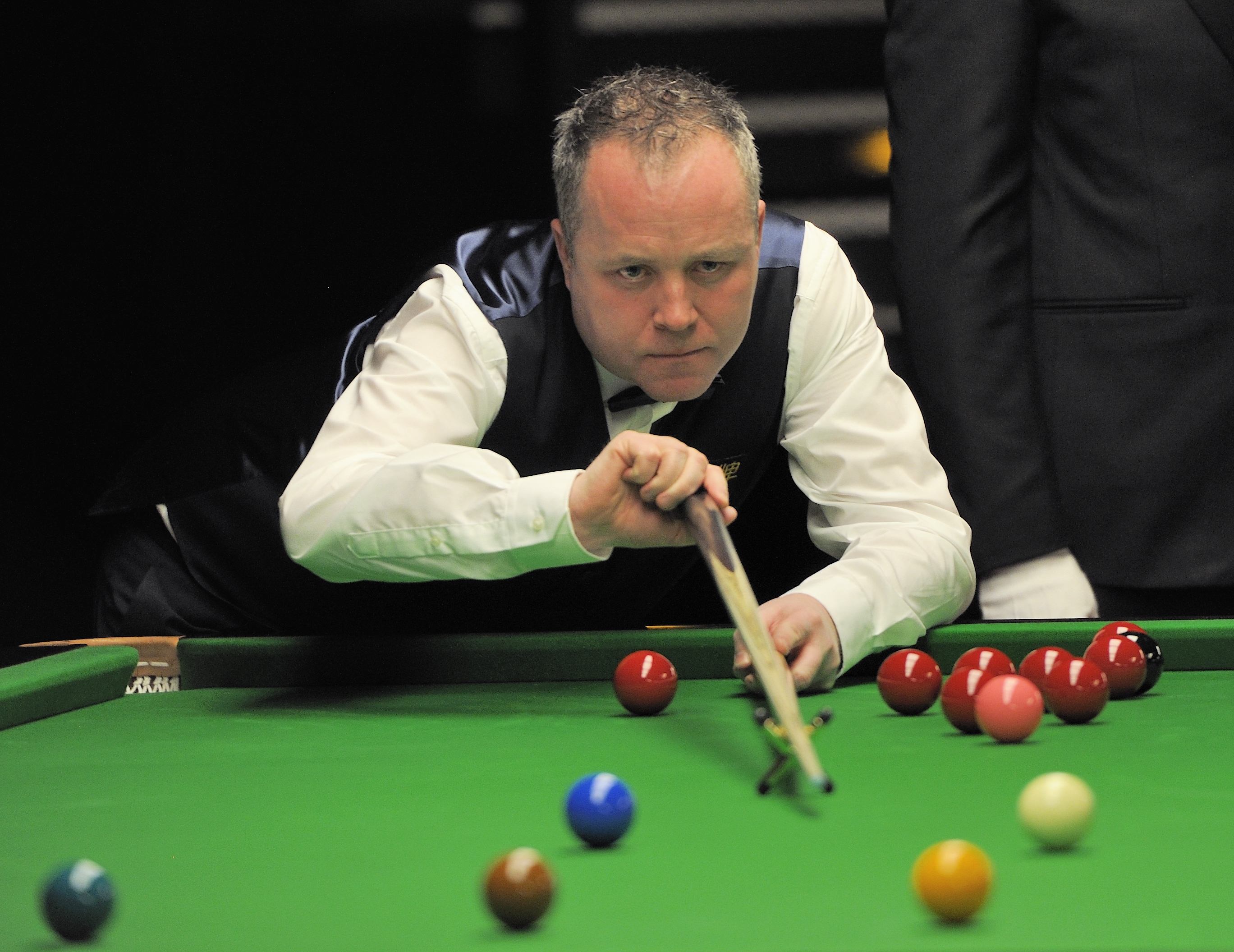 Picture taken in Berlin during the Snooker German Masters in 2014. John Higgins.